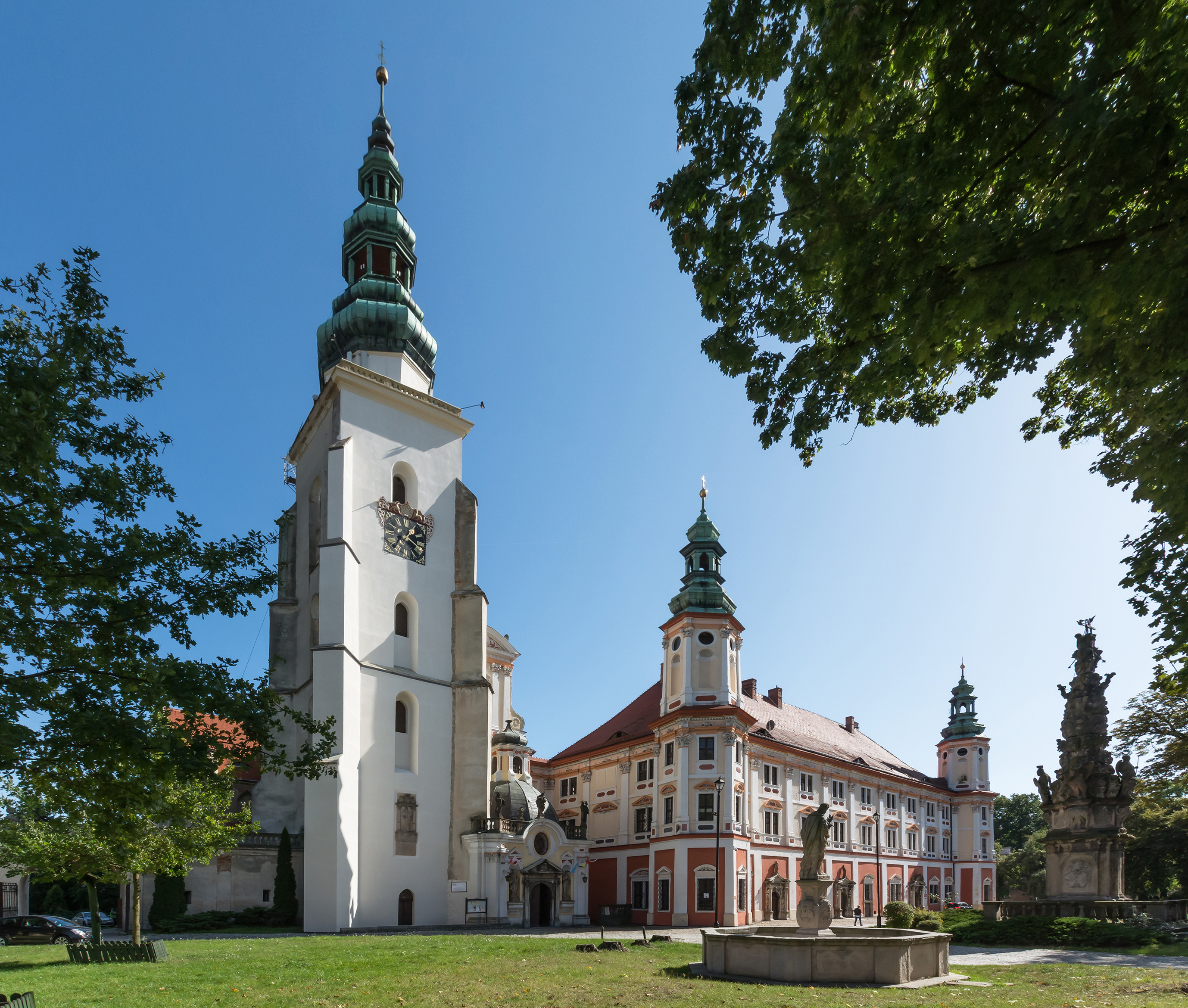 Cistercian abbey in Henryków Ta fotografia przedstawia zabytek wpisany do rejestru zabytków pod numerem ID Q30088681